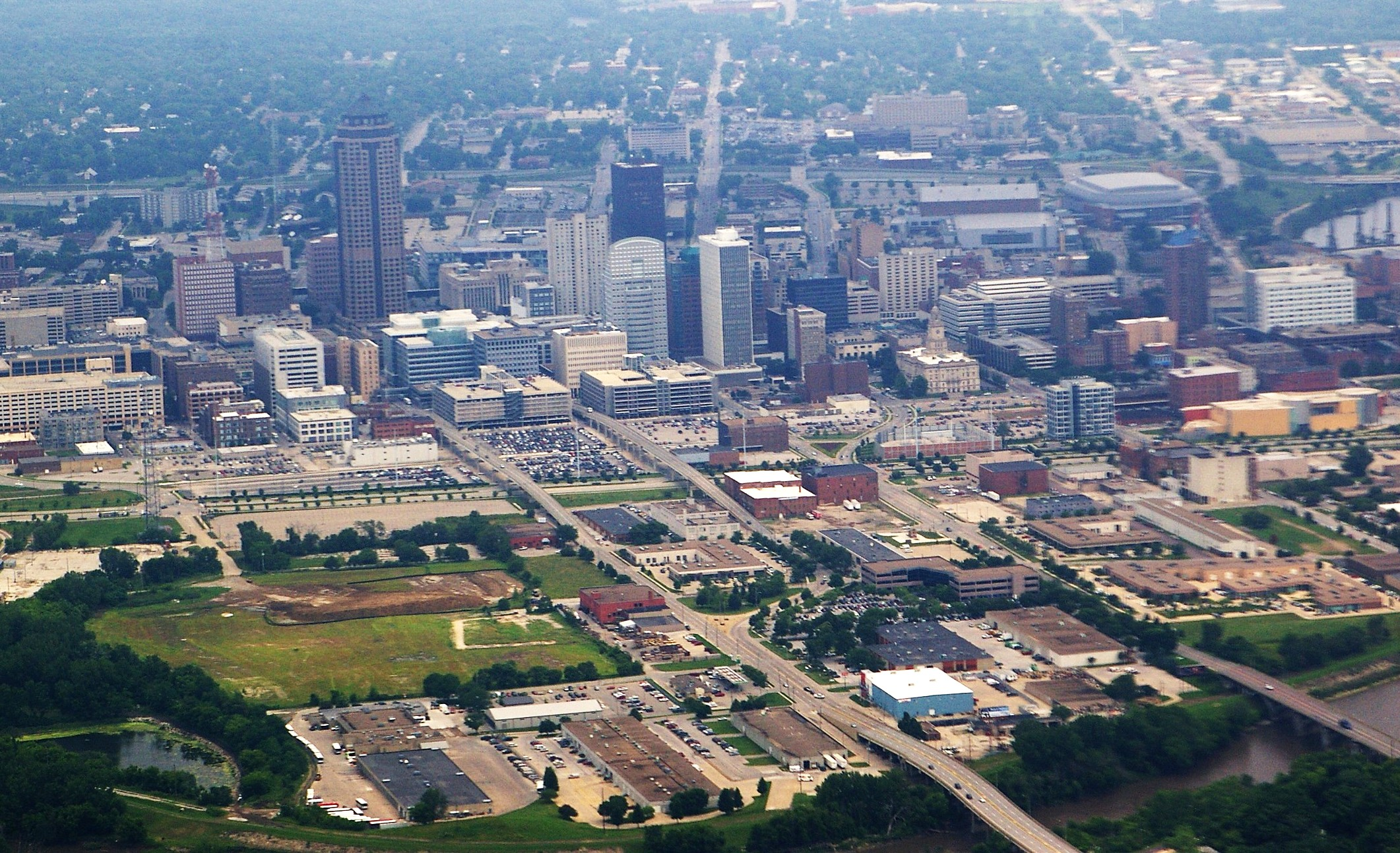 Downtown Des Moines, Iowa, United States on a rainy morning. Looking north on takeoff from Des Moines International Airport.